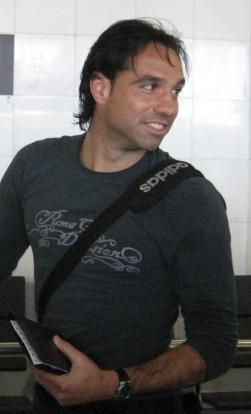 Maccabi Haifa's goalkeeper, Nir Davidovich, at passport control in Barcelona